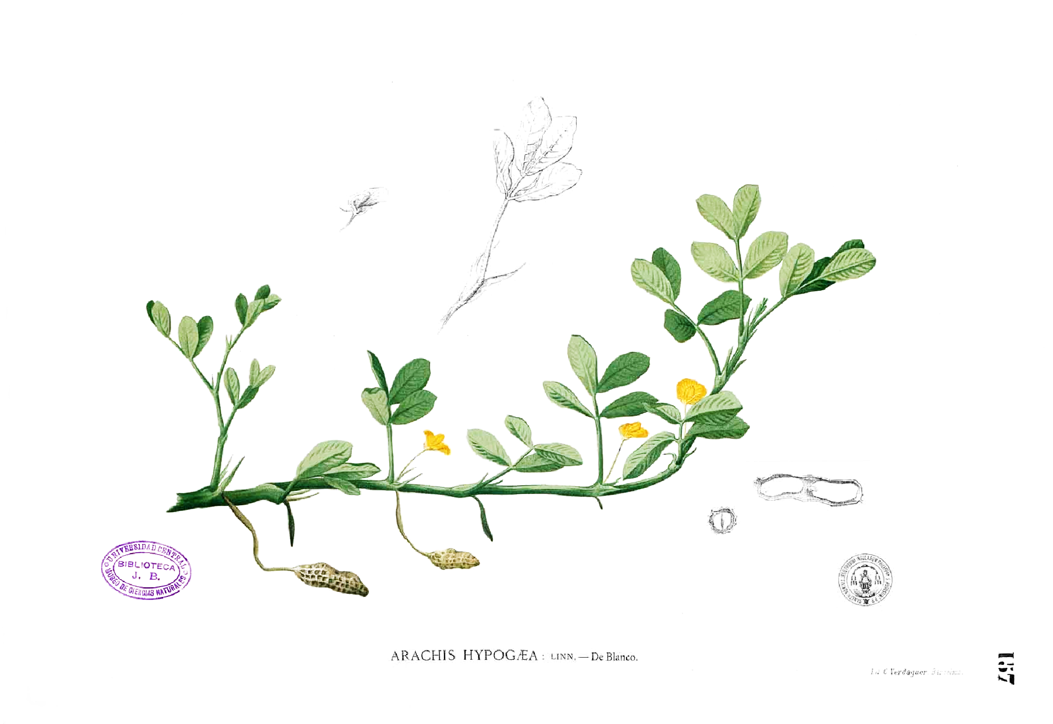 Plate from book